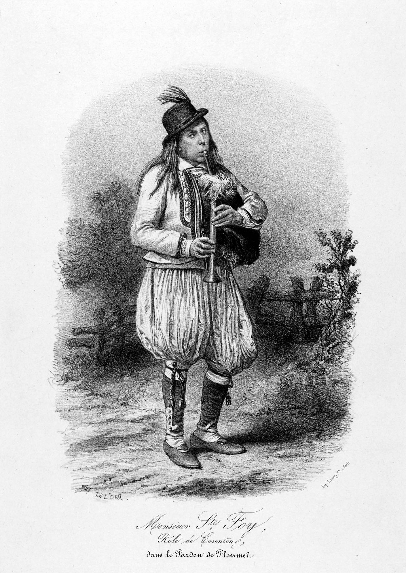 French opera singer Sainte-Foy (1817-1877) as Corentin in Meyerbeer's Dinorah, ou le Pardon de Ploërmel, which premiered in Paris at the Opéra-Comique on 4 April 1859.